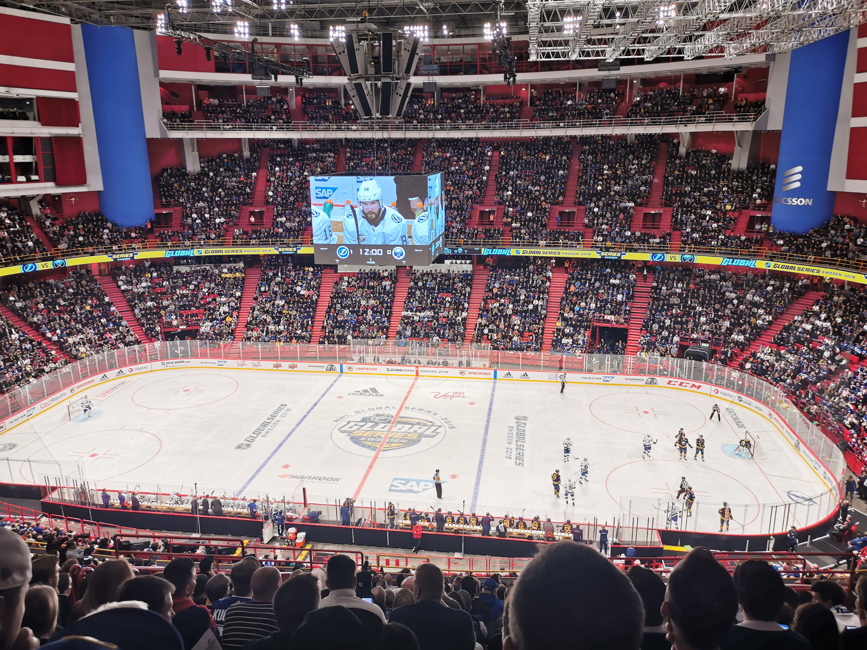 NHL game in Ericsson Globe between Tampa Bay vs Buffalo Sabres in 2019.